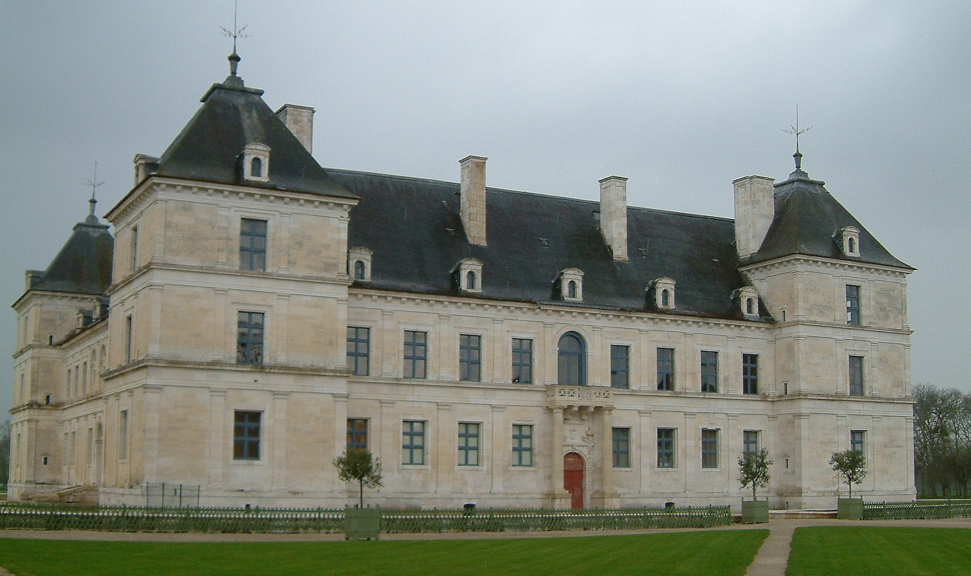 Ancy-le-Franc castle, Burgundy, FRANCE.